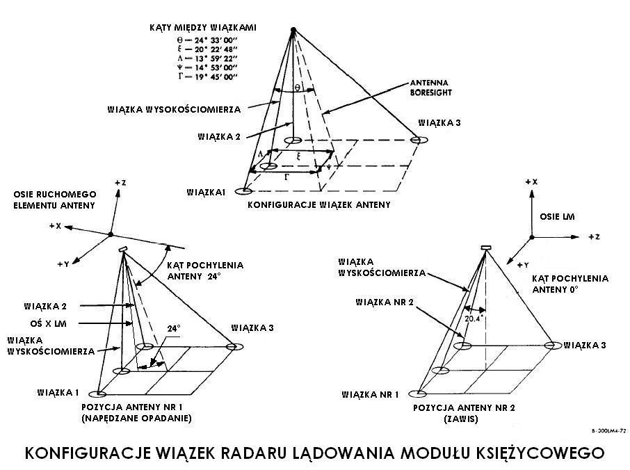 Landing radar - antenna beam configuration